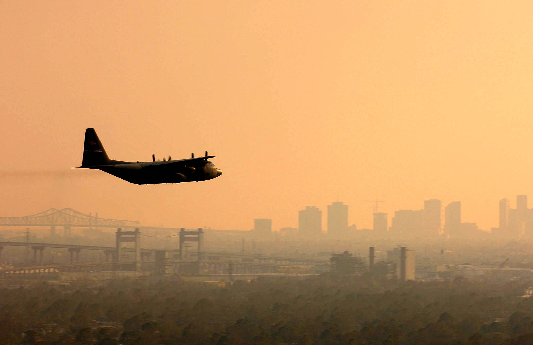 NEW ORLEANS -- A U.S. Air Force Reserve C-130 Hercules from the 910th Airlift Wing at Youngstown Air Reserve Station, Ohio, sprays Dibrom, a pesticide approved by the U.S. Environmental Protection Agency, over the city Sept. 13. The C-130 crew plans to spray the New Orleans area first, then other affected Gulf Coast areas as required. Crews will target are primarily mosquitoes and filth flies, which are capable of transmitting diseases such as Malaria, West Nile virus, and various types of Encephalitis. The C-130 is capable of spraying about 60,000 acres per day. (U.S. Air Force photo by Staff Sgt. Jacob N. Bailey)